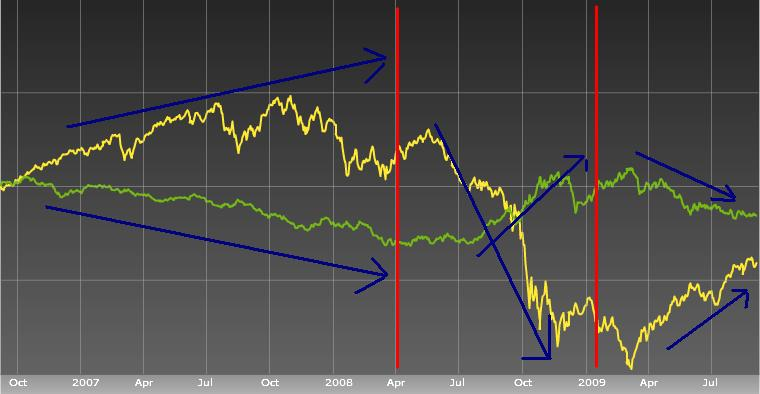 A chart showing the correlation between MSCI World Index of equities ( yellow line ) and the US Dollar Index ( green line ).